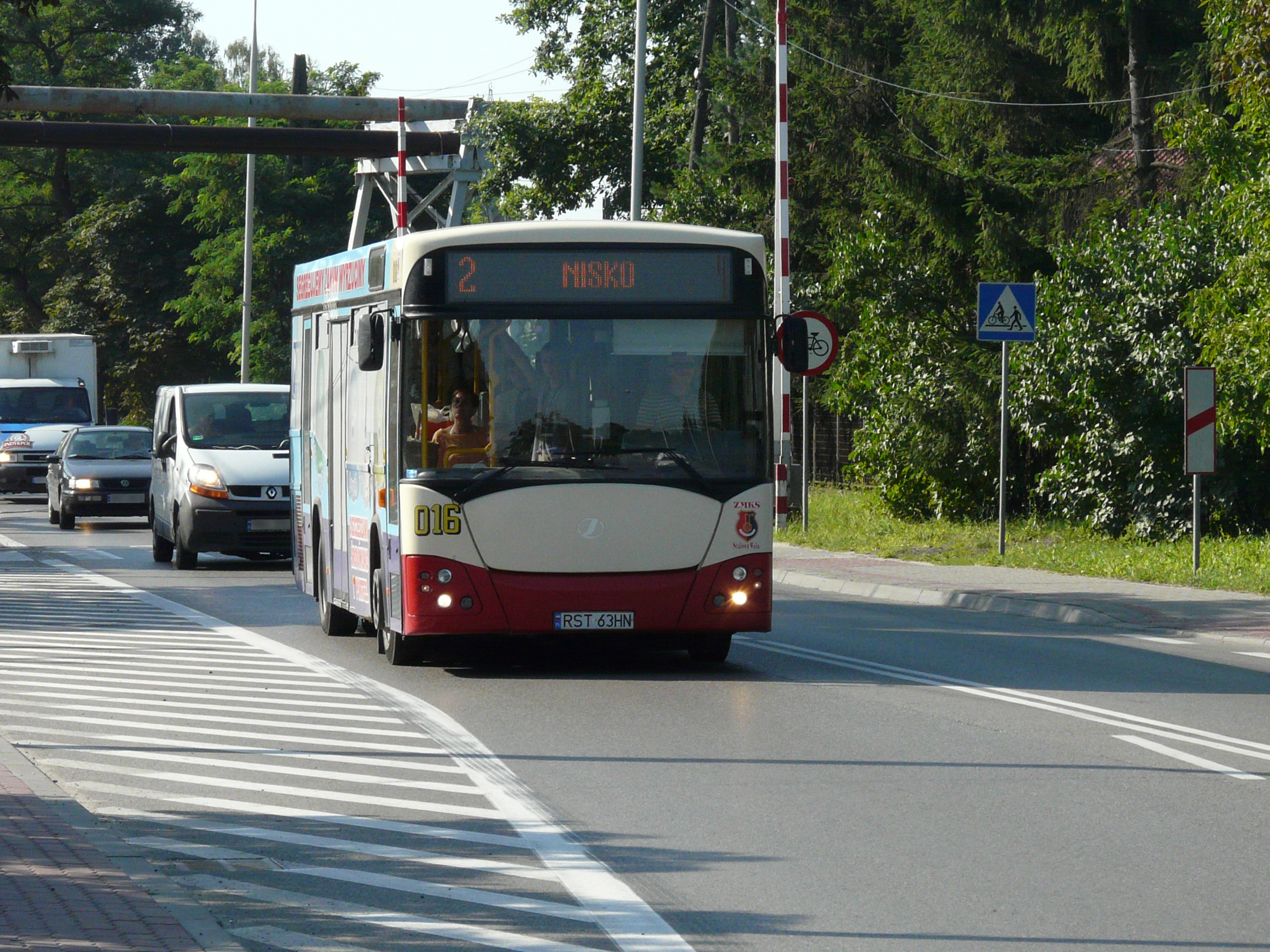 Public transport in Stalowa Wola, Poland - Jelcz M101I bus (#016) on line 2. Year built 2005, ZMKS Stalowa Wola operator.